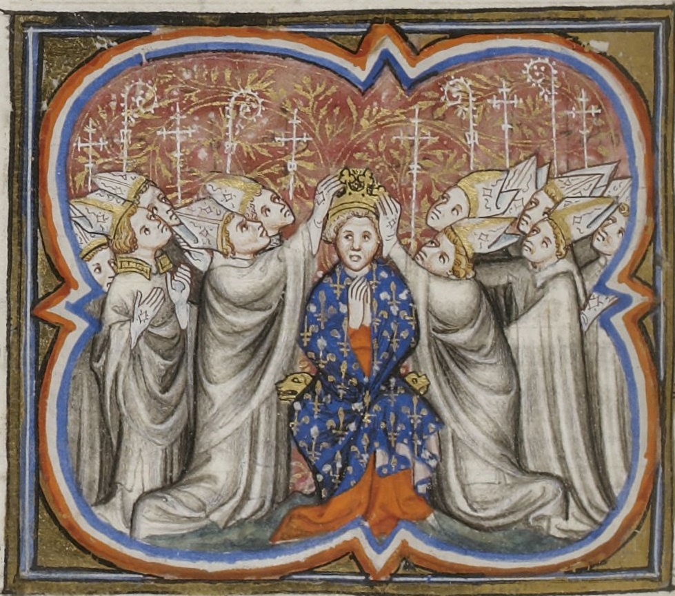 Philip II of France, crowning.